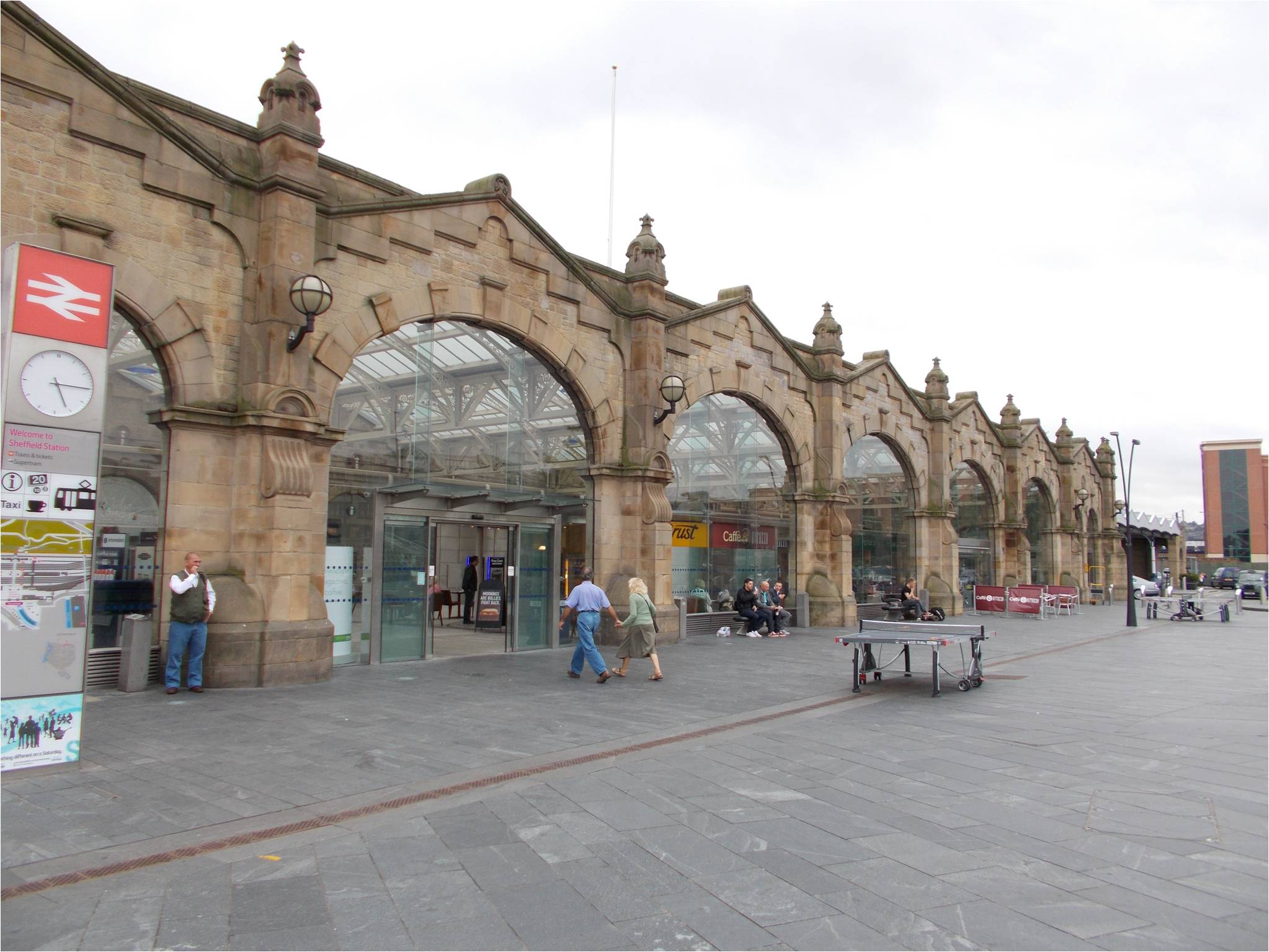 Train station, Shefield 2013